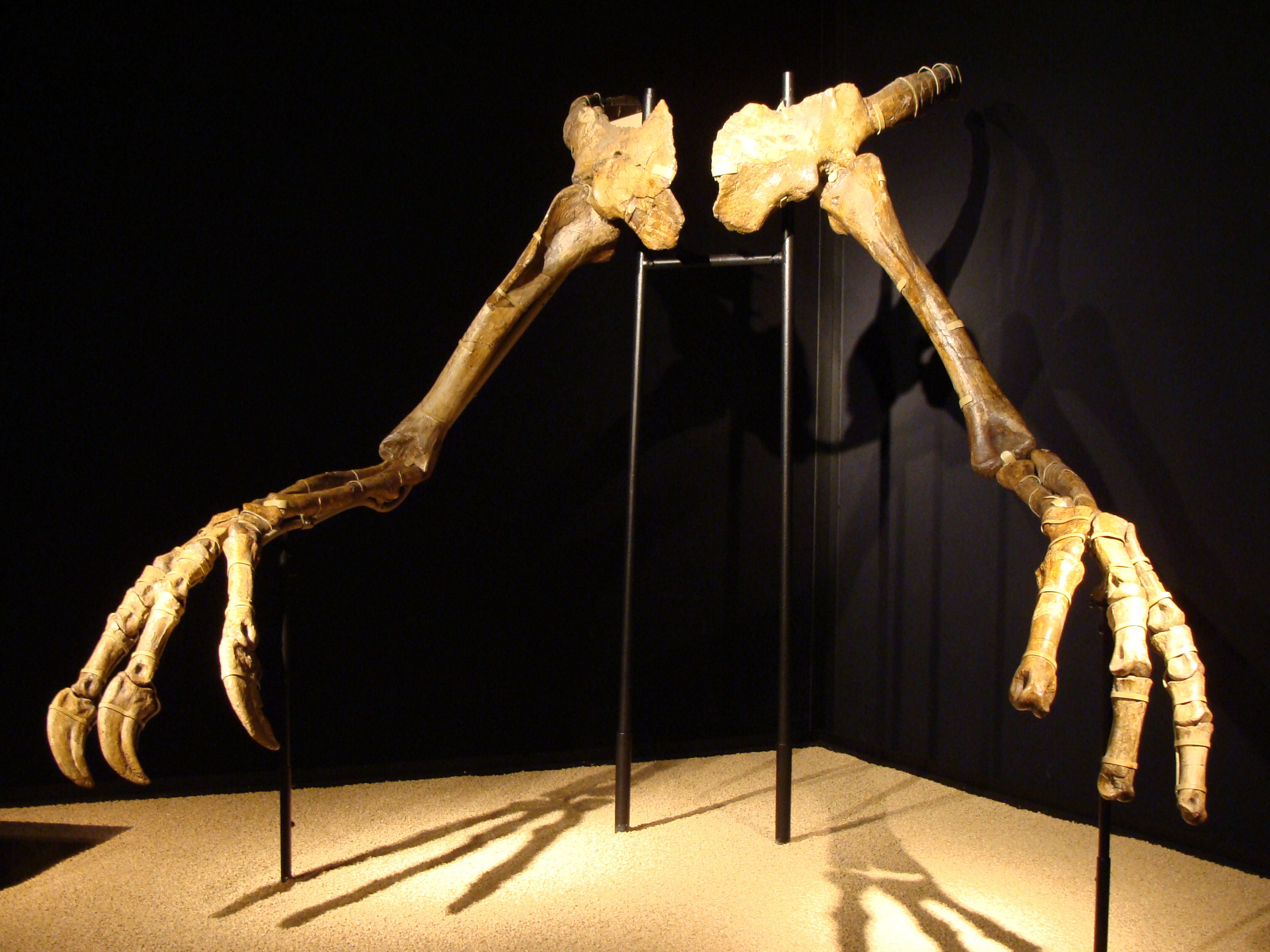 Deinocheirus mirificus holotype in the exhibition "Dinosaures. Tresors del desert de Gobi" ("Dinosaurs. Treasures of Gobi Desert") in CosmoCaixa, Barcelona.